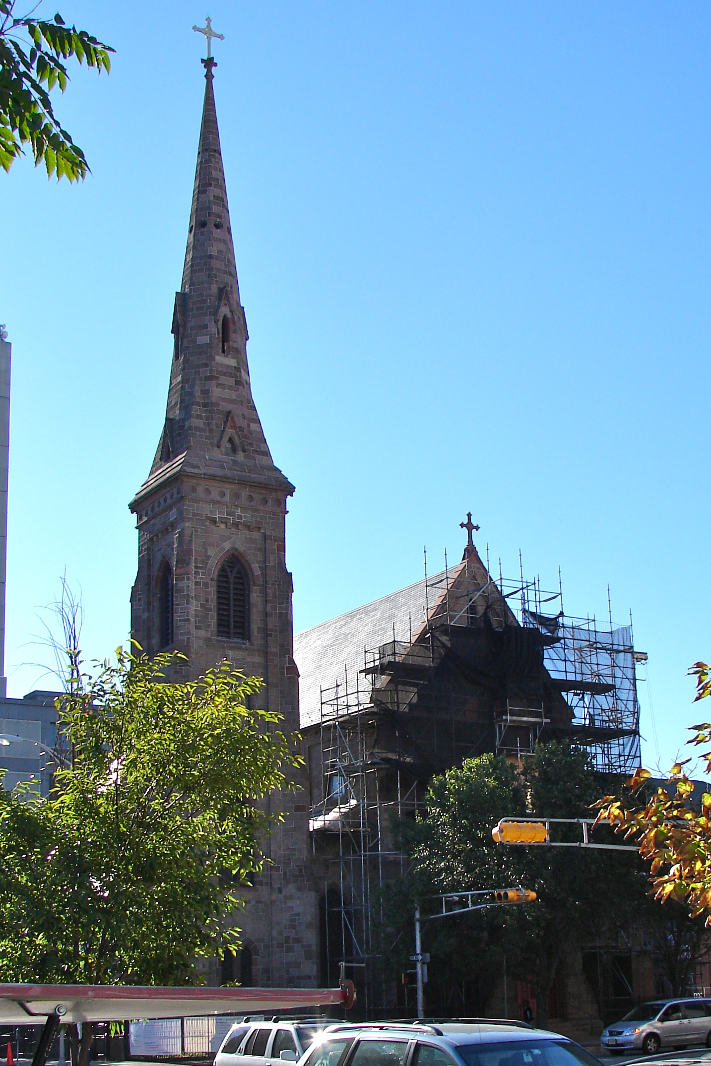 Church of the Immaculate Conception on the NRHP since December 10, 2003. At 642 Market St., Camden, New Jersey. Catholic, undergoing major repairs